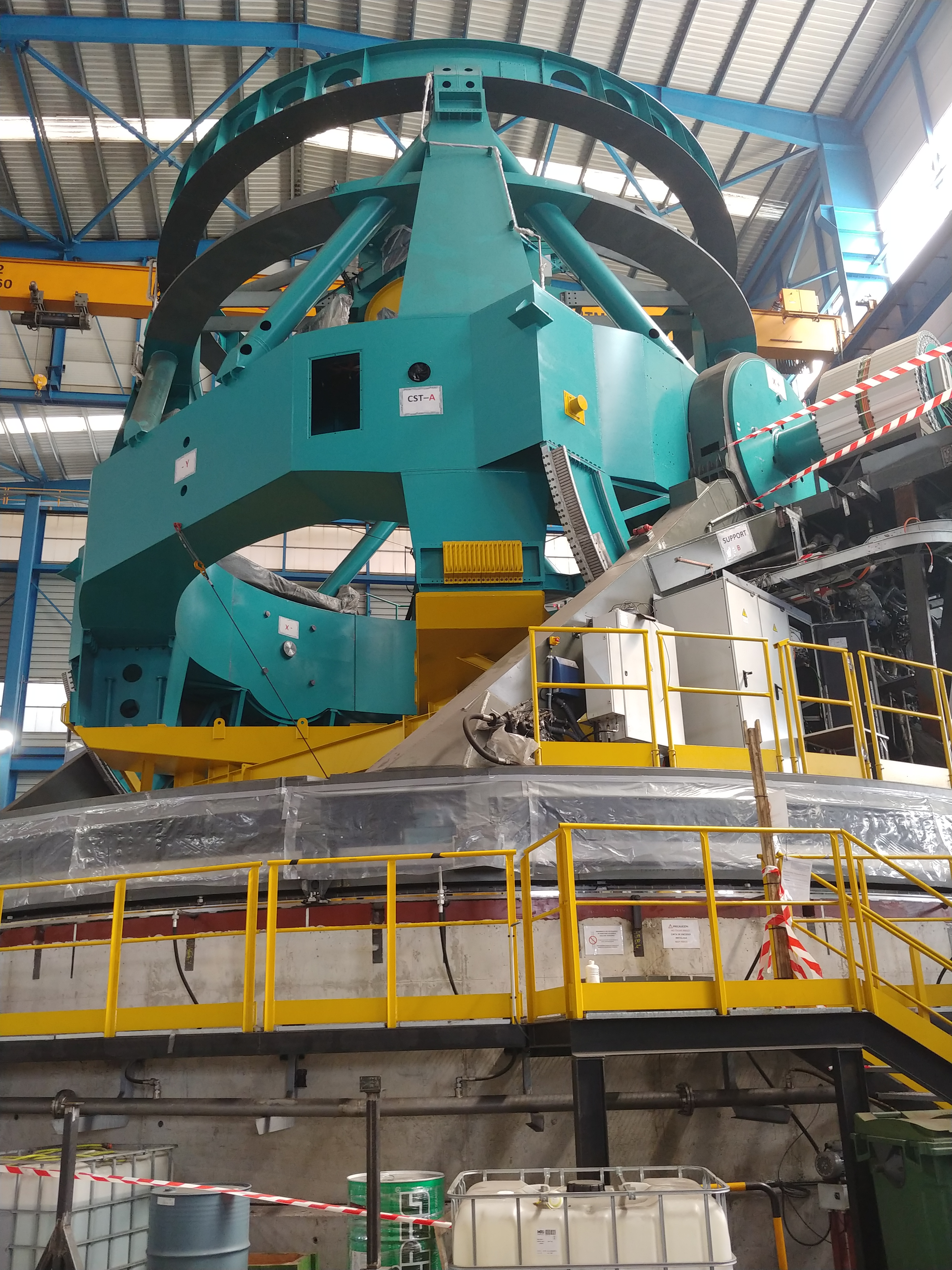 An LSST team spent 5 days in Spain this month, conducting a thorough safety review of the Telescope Mount Assembly (TMA), at vendor Asturfeito. LSST Safety Manager Chuck Gessner, Telescope and Site Technical Manager Shawn Callahan, Senior Systems Engineer Austin Roberts, and Lead Electrical Engineer Oliver Wiecha inspected the numerous safety features included in the structure of the TMA.